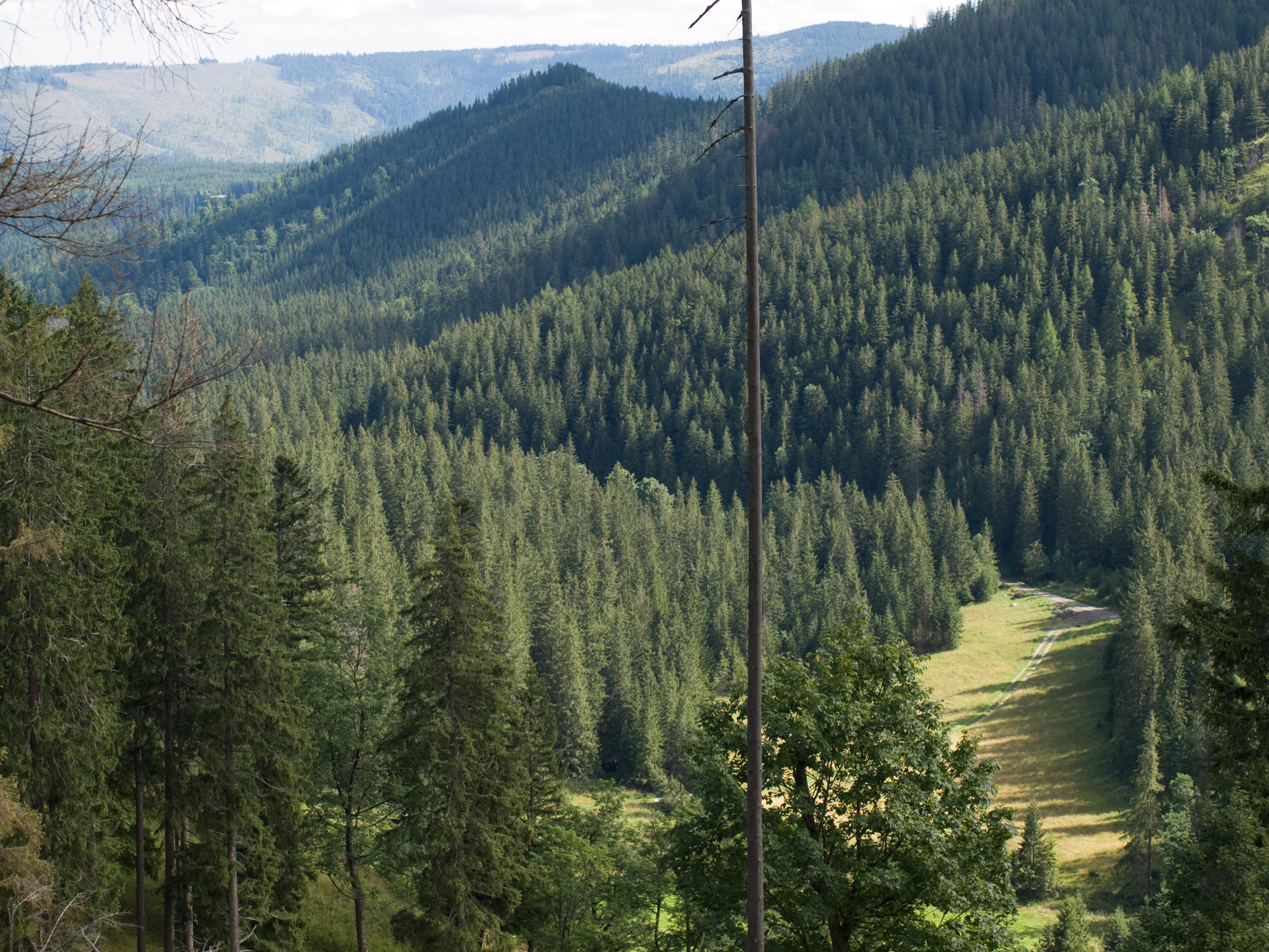 Gombošov vrch, in the foreground Červené lúky in Červená dolina